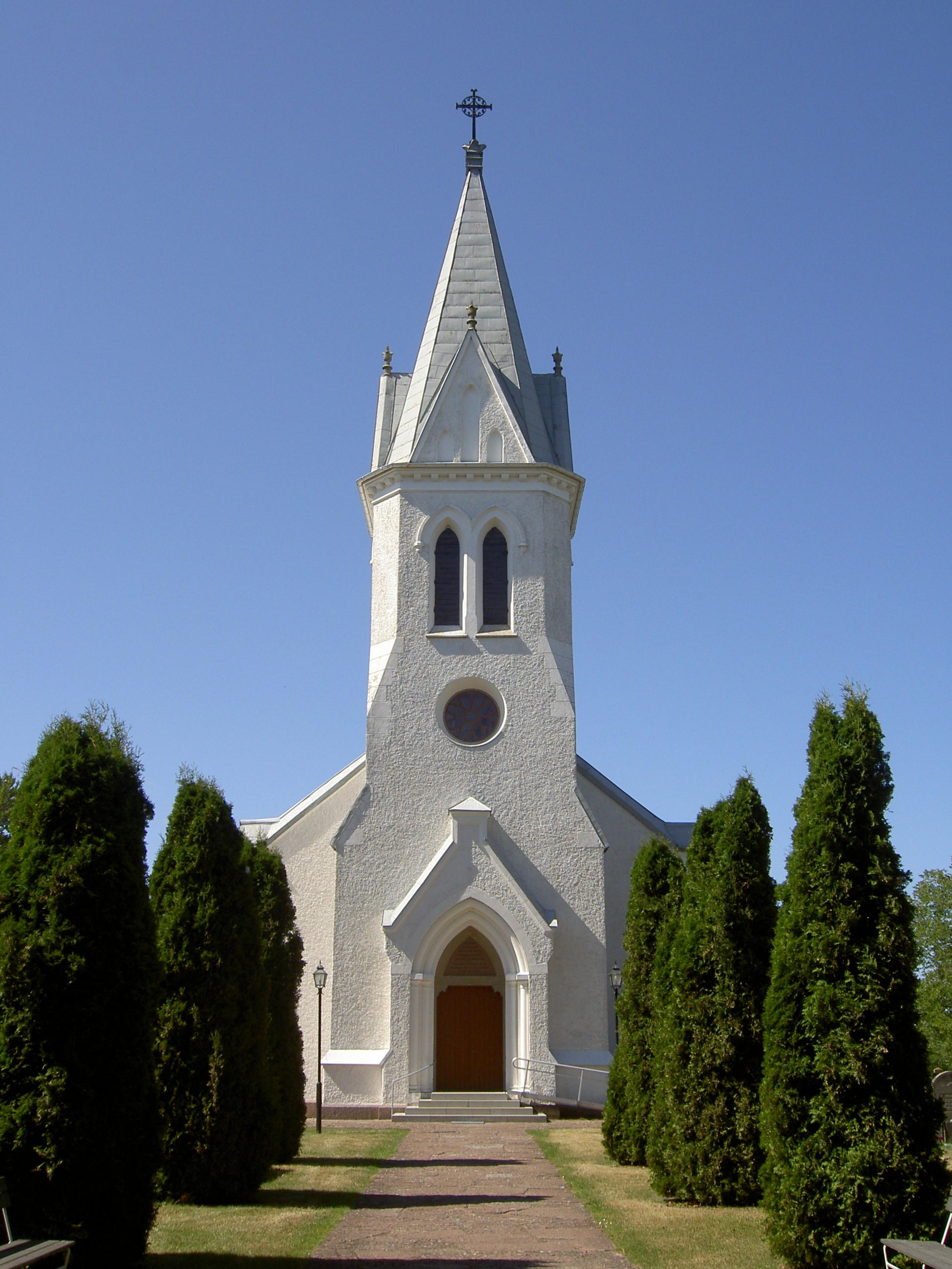 (New) Church of Källa, Öland, Sweden